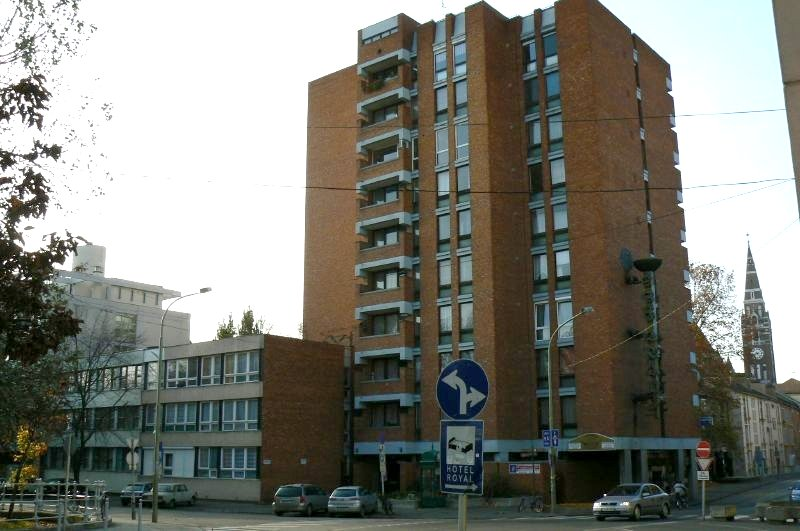 Béla Borvendég architect engineer 1973